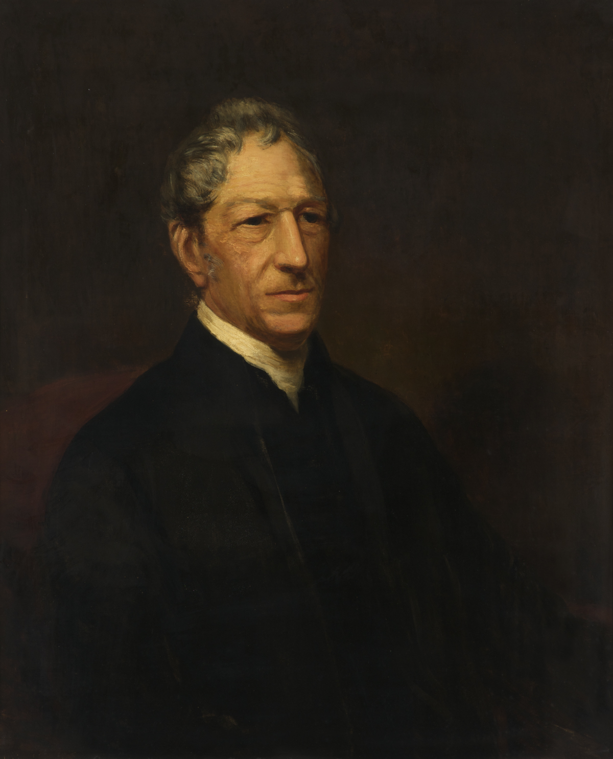 Portrait of Canon James Slade (1783-1860)